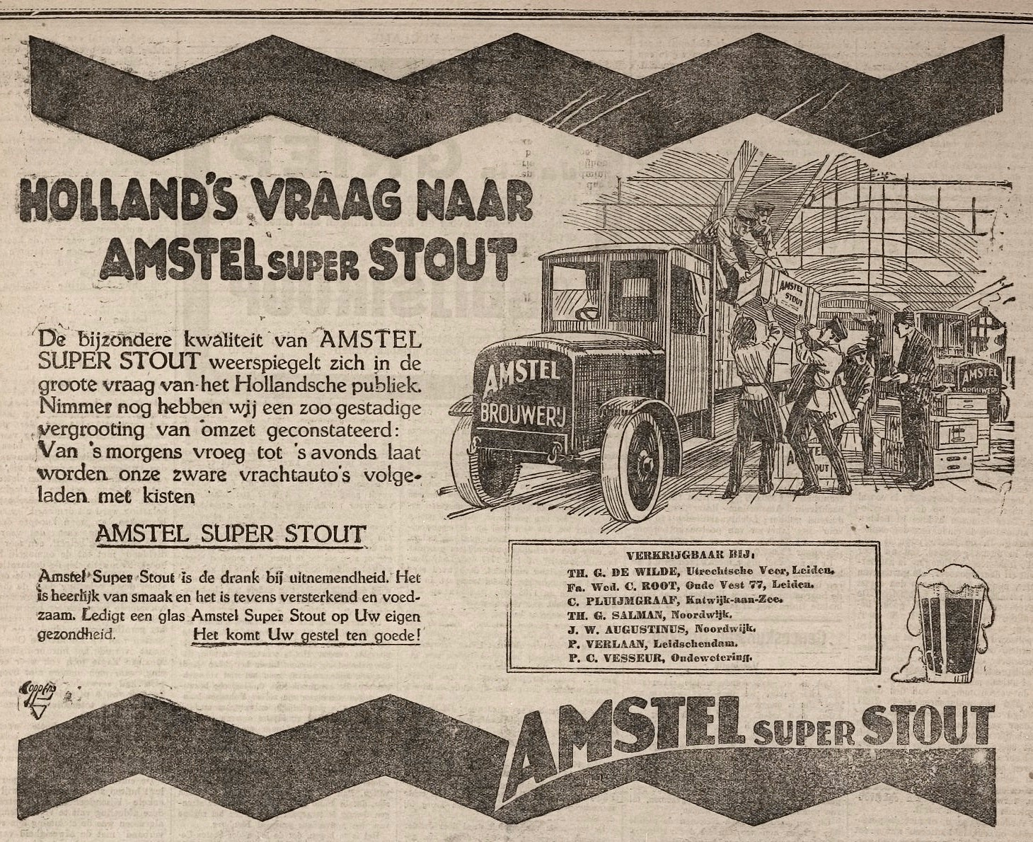 A large advertisement (half a page) for "Amstel super Stout"-beer, published in the "Leidsch Dagblad" of 23 December 1922 (Leiden, Netherlands).